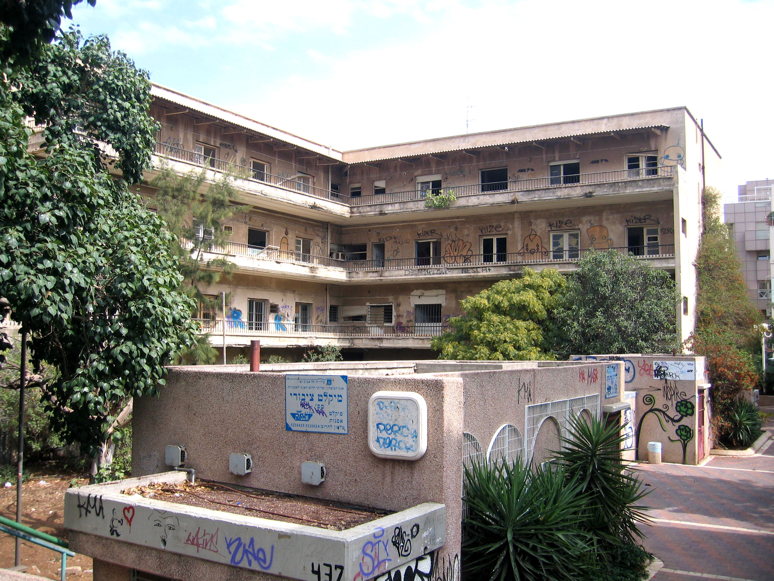 Dov Hoz Street